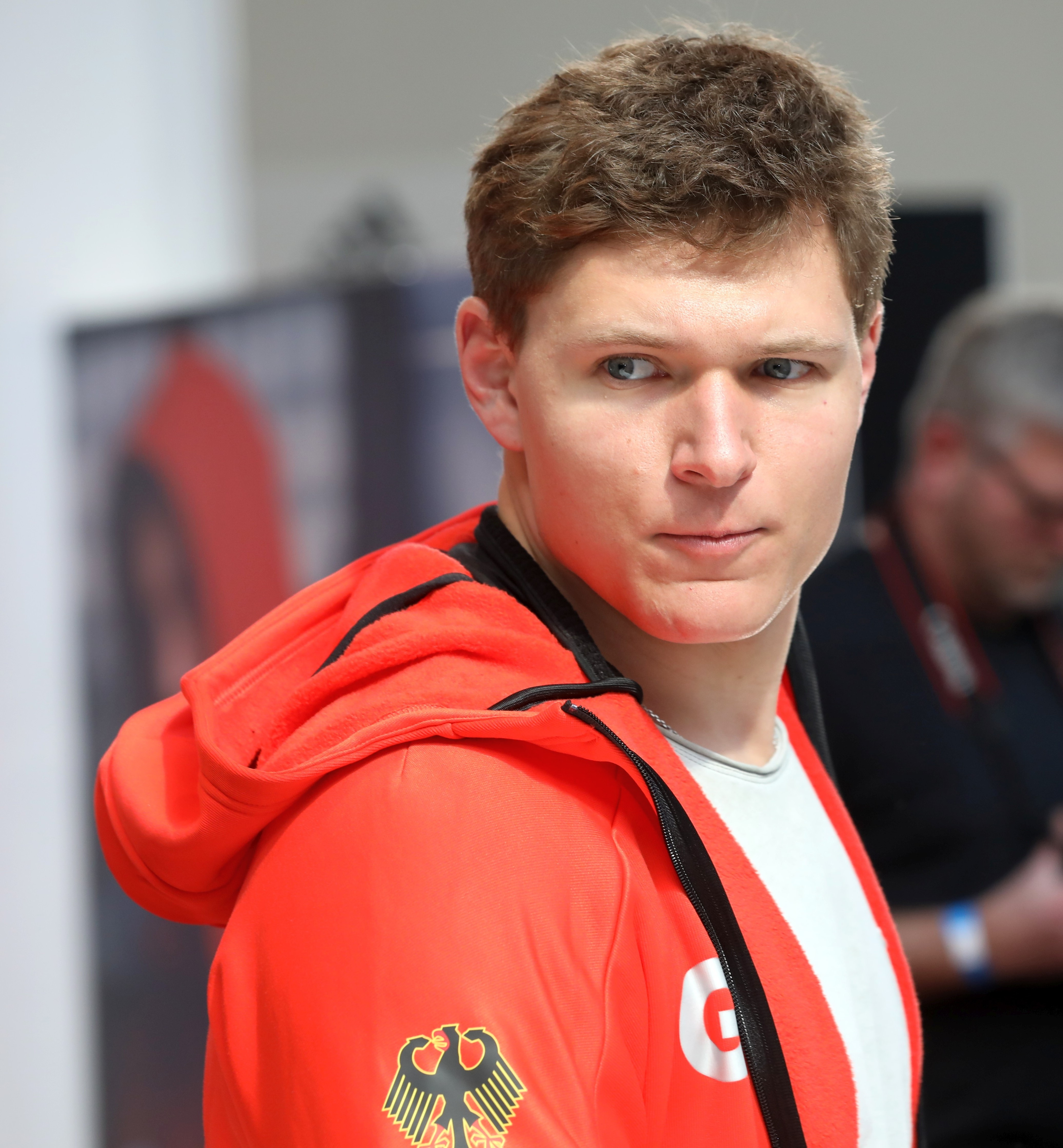 Investiture of the German team for Winter Olympics 2018 in Pyeonchang: Thomas Dreßen